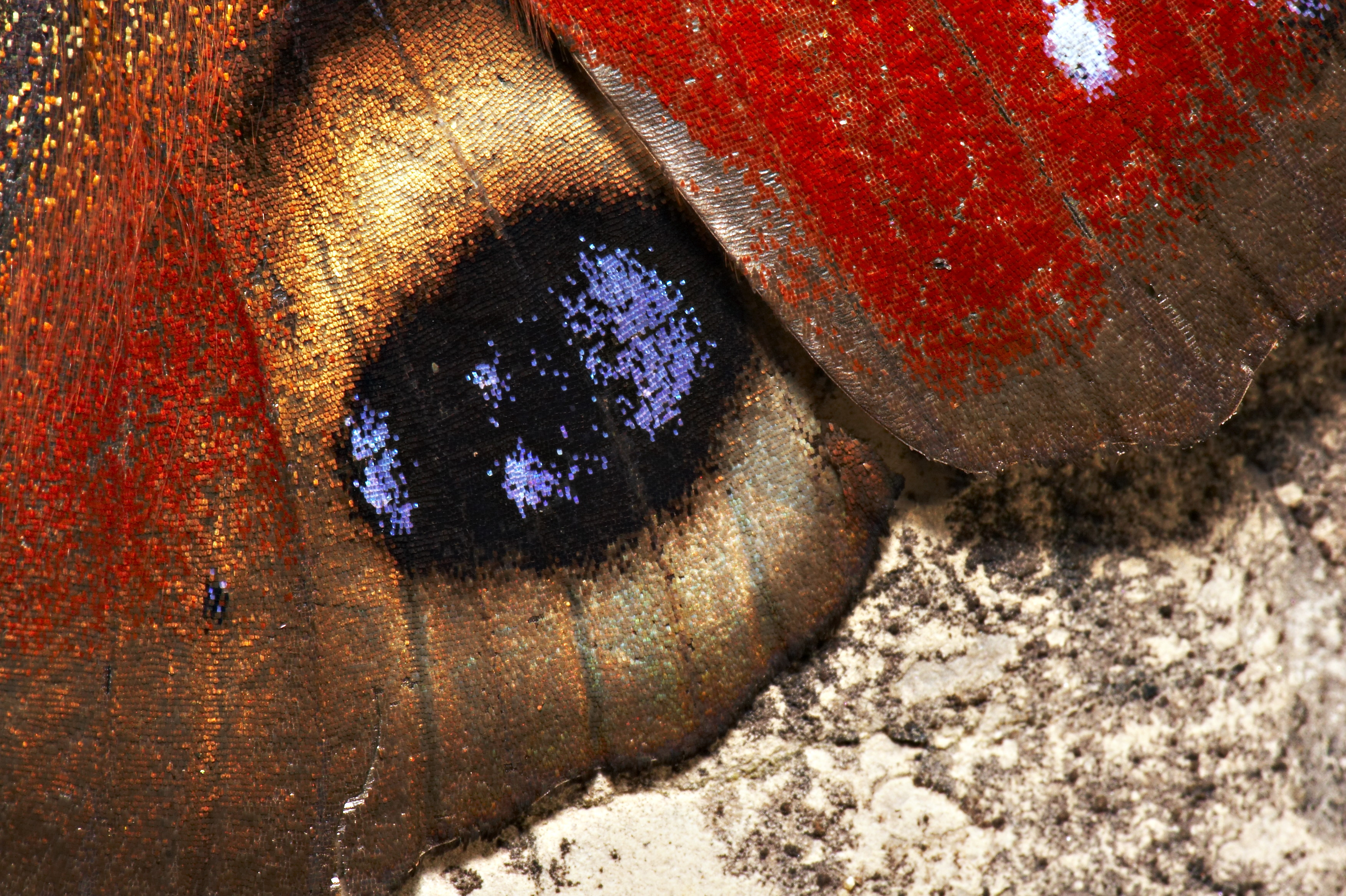 Wing detail of Inachis io.